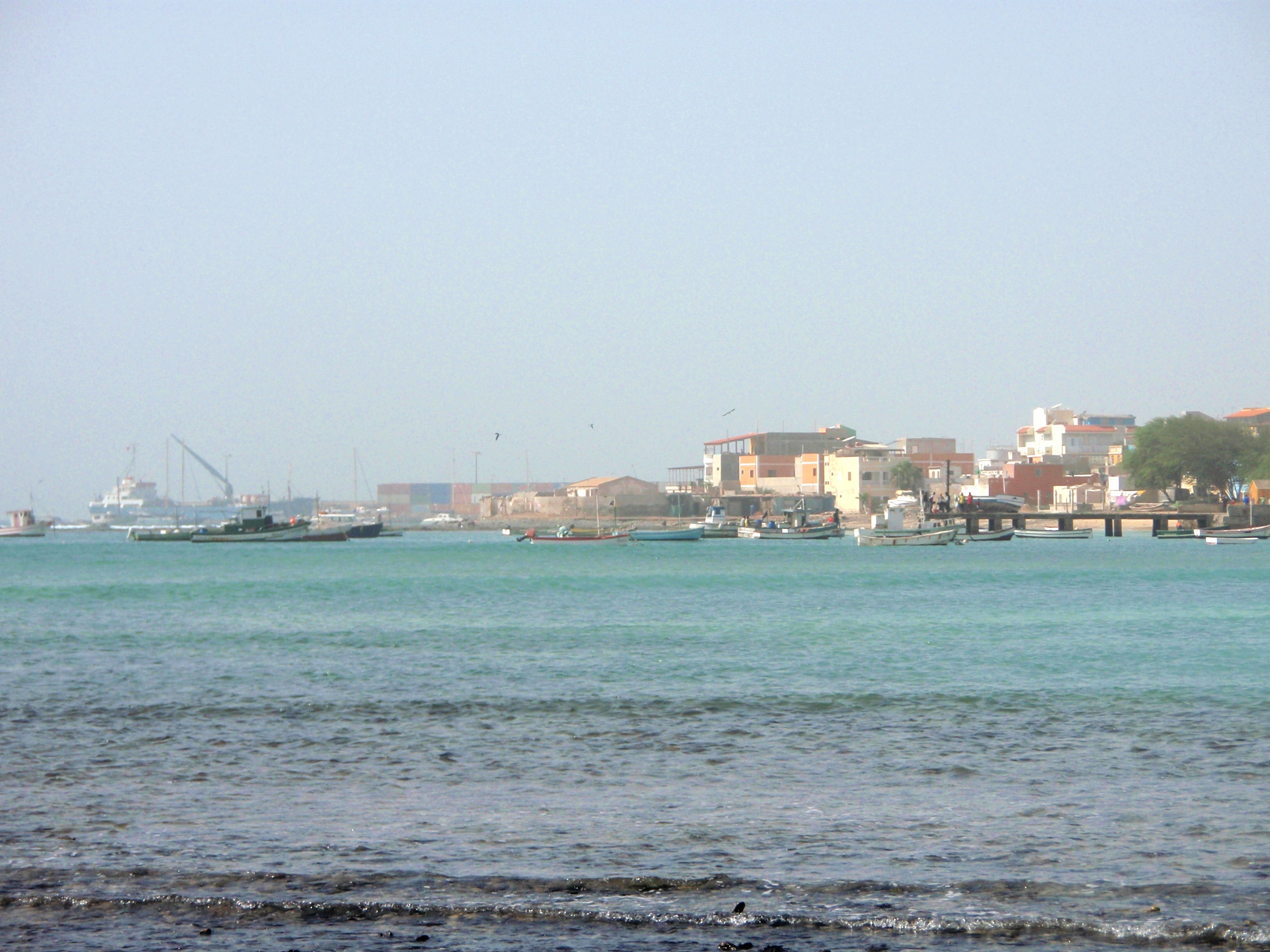 Sal Rei, Boa Vista, Cape Verde